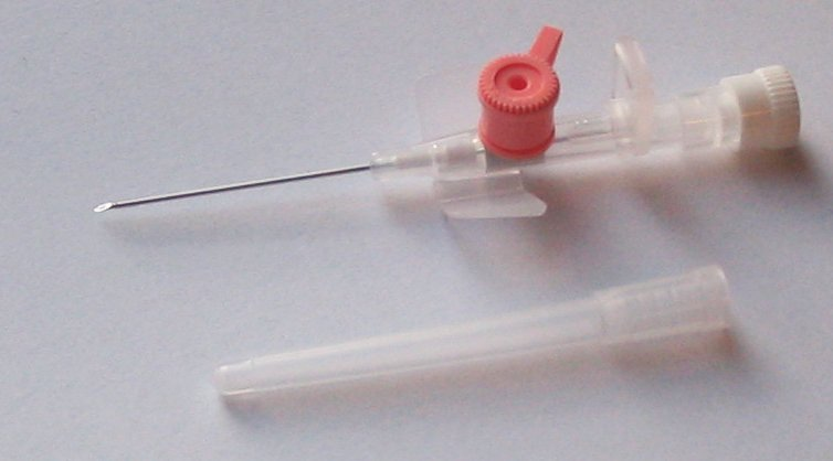 Intravenous cannula of brand Venflon (manufactured by BD / Becton Dickinson Infusion Therapy AB). 20G (1.0 x 32 mm). Sold in the UK. Photo by me. Photo taken in 2006.